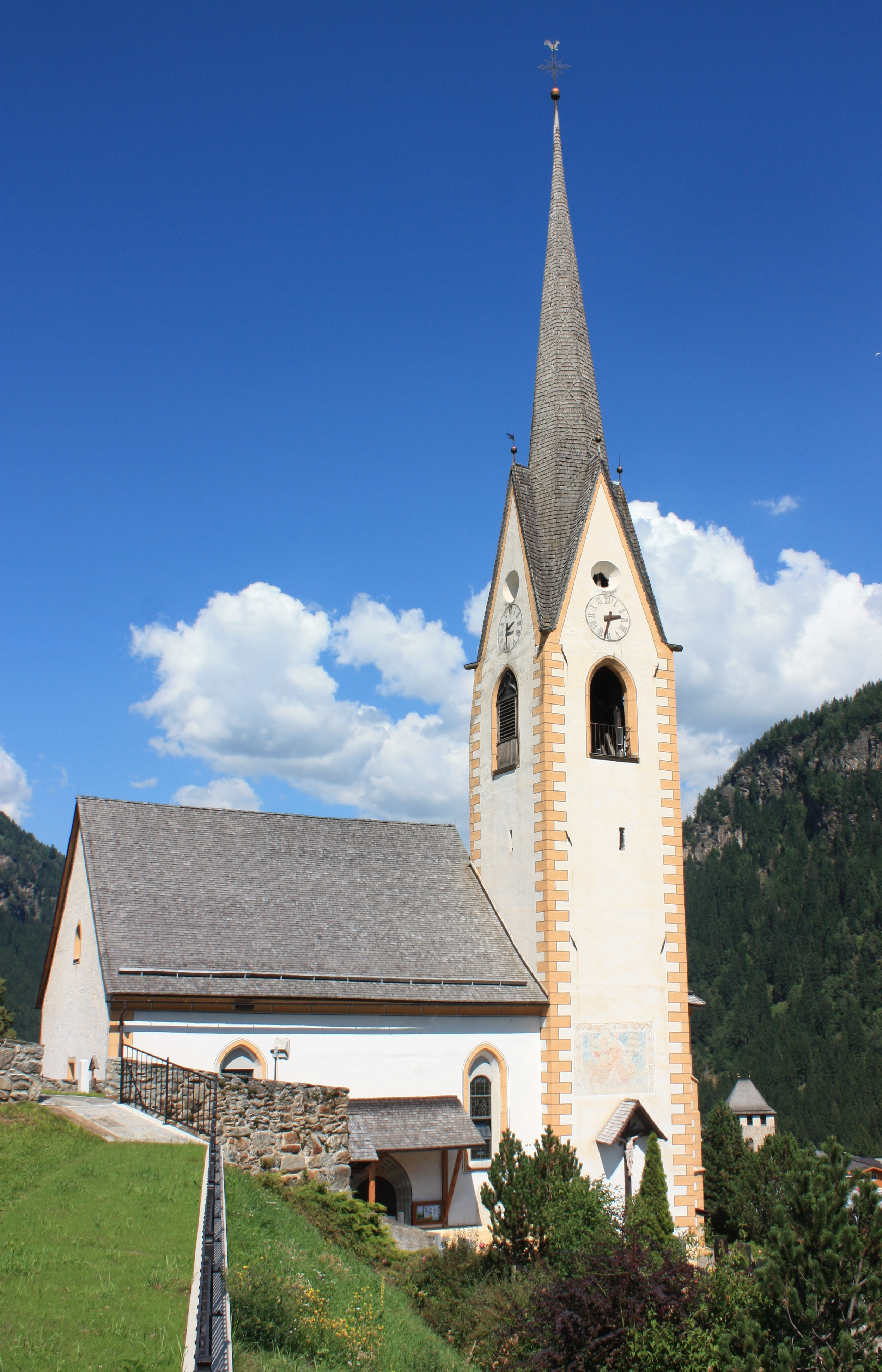 Parish church „Saint Laurentius“ Locality: Winklern Community:Winklern